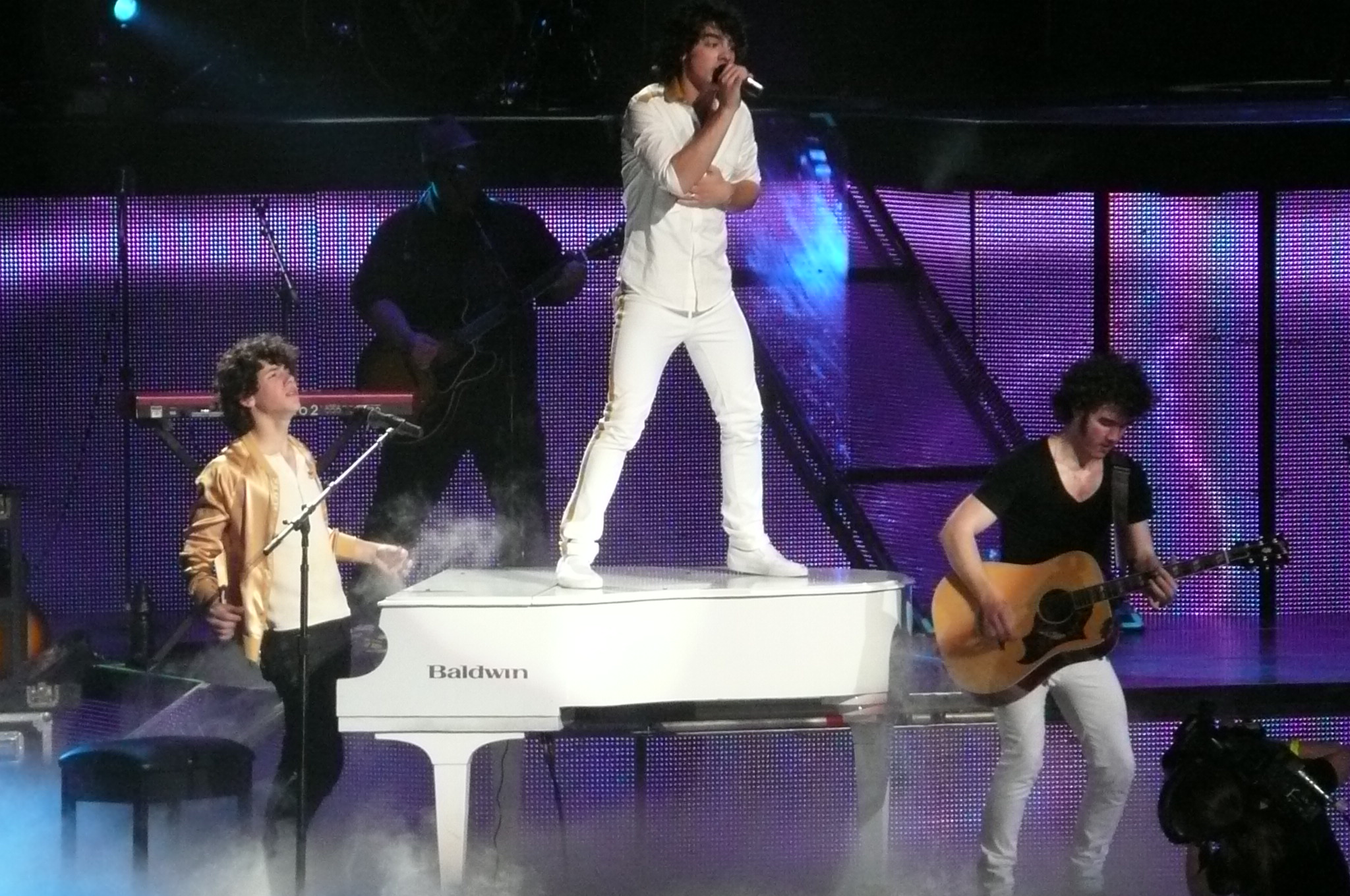 Jonas Brothers in concert 2008